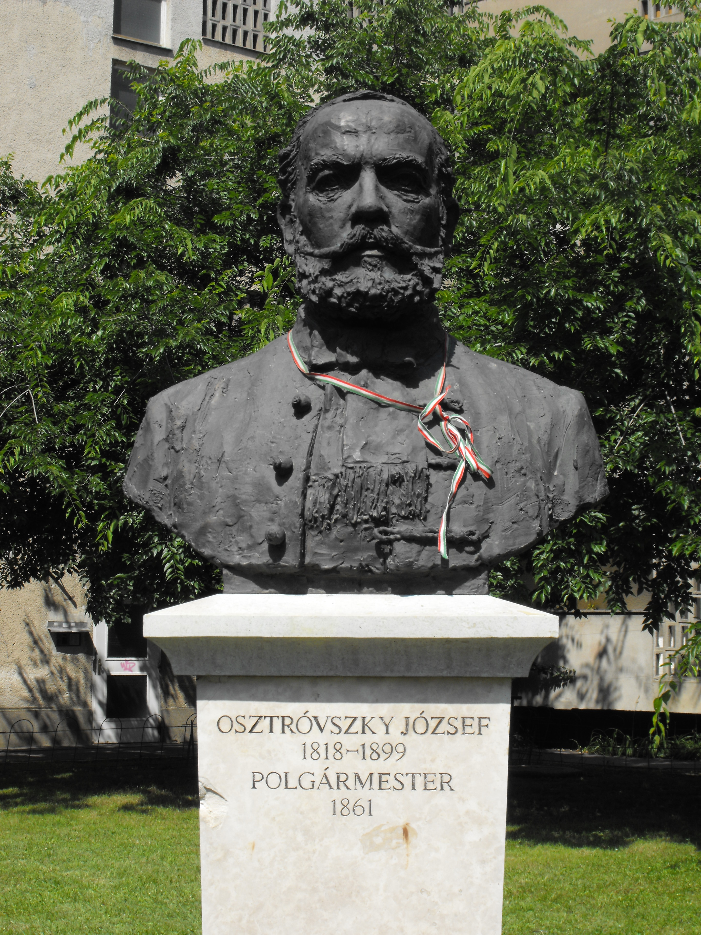 Statue of József Osztróvszky, Mayor of Szeged in Szeged, Hungary. Sculptor: Jenő Ferenc Kiss.